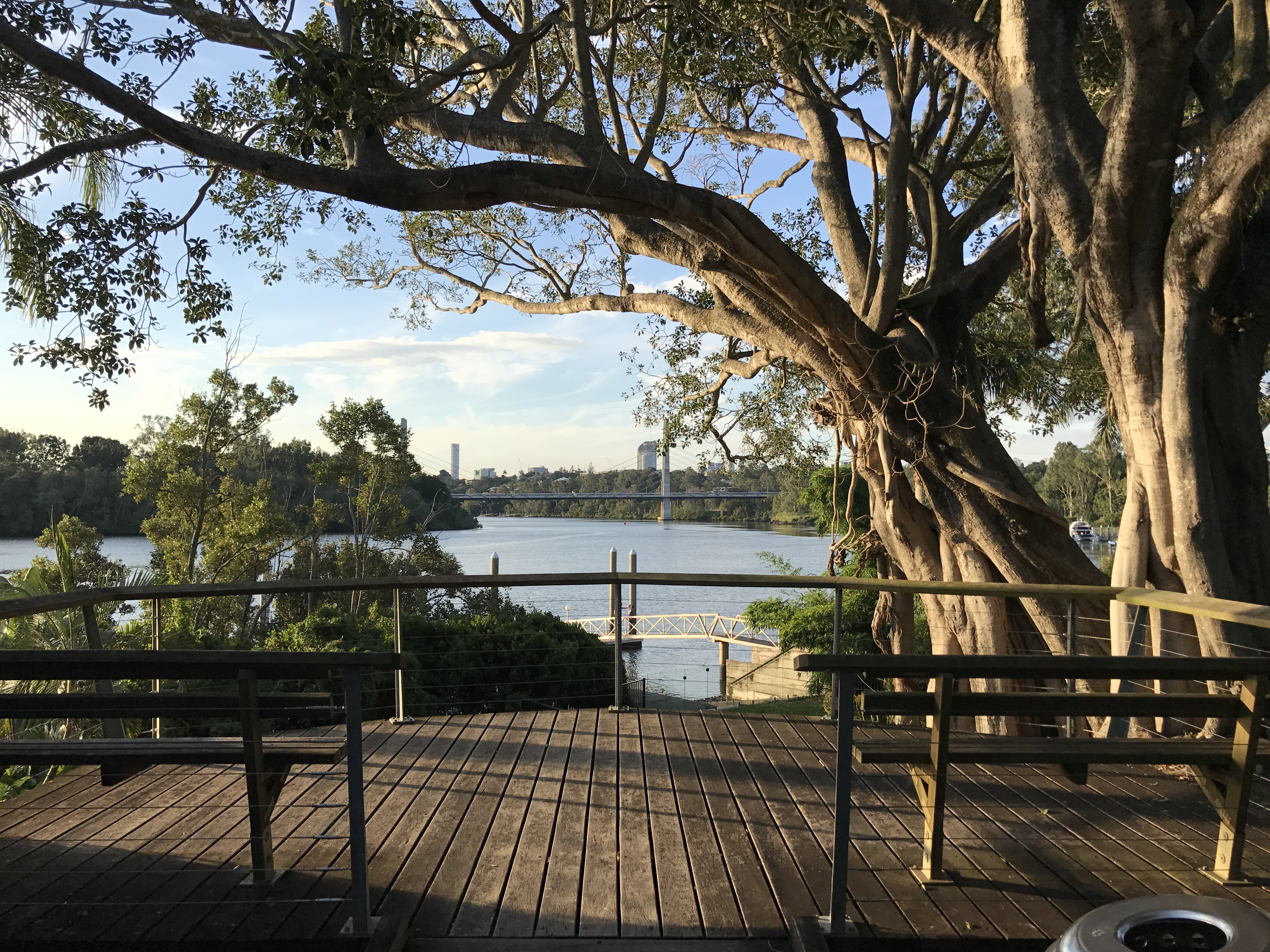 Lookout platform in Fairfield, Queensland with Eleanor Schonell Bridge in the distance